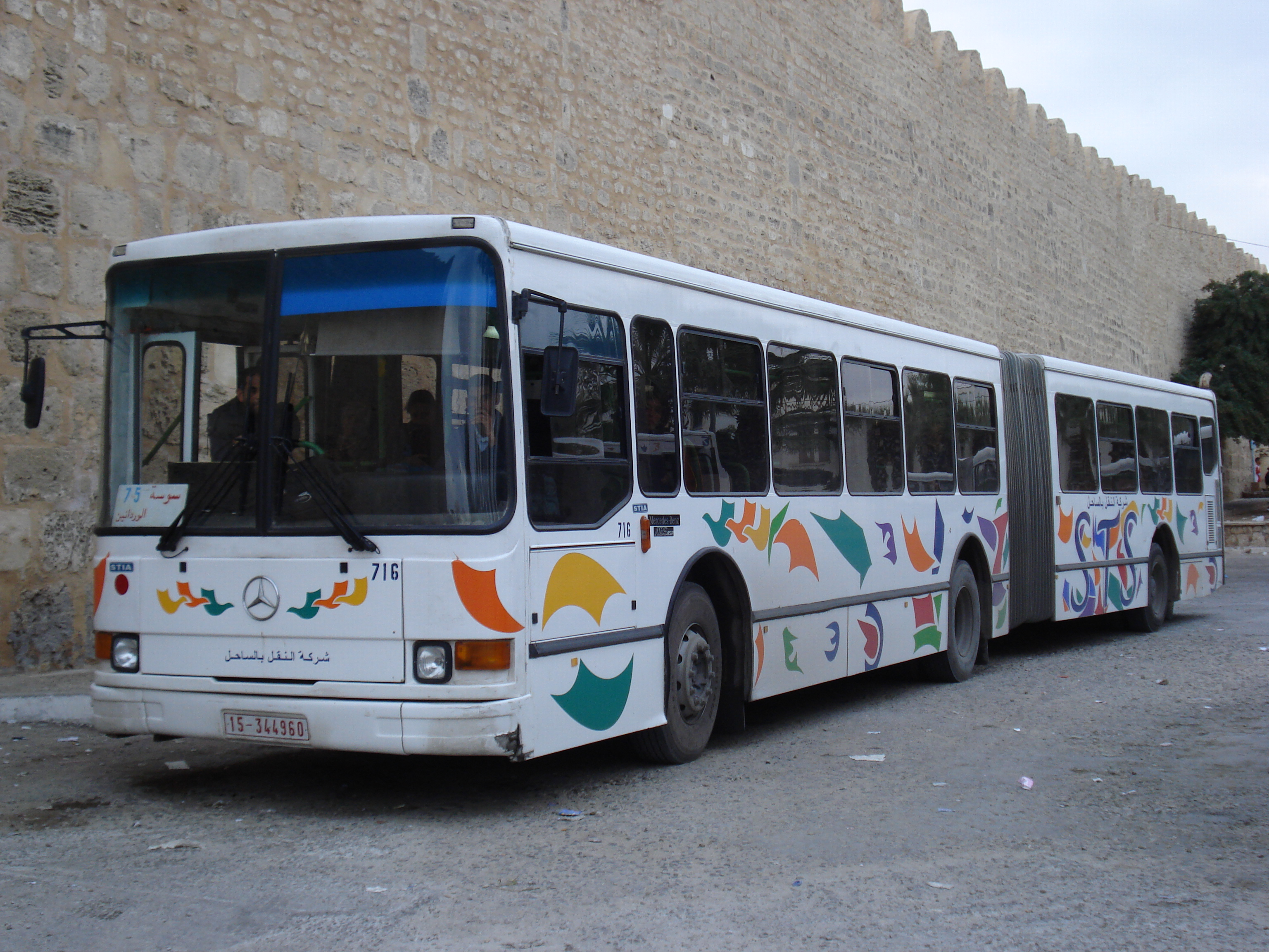 Bus de la société de transport du Sahel au terminus de Sousse, Sousse, Tunisie